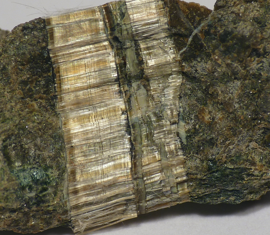 Clinochrysotile Locality: Callenberg North (No. 2) open cut, Callenberg, Glauchau, Saxony, Germany Field of view 3 cm. Specimen and photo Leon Hupperichs.